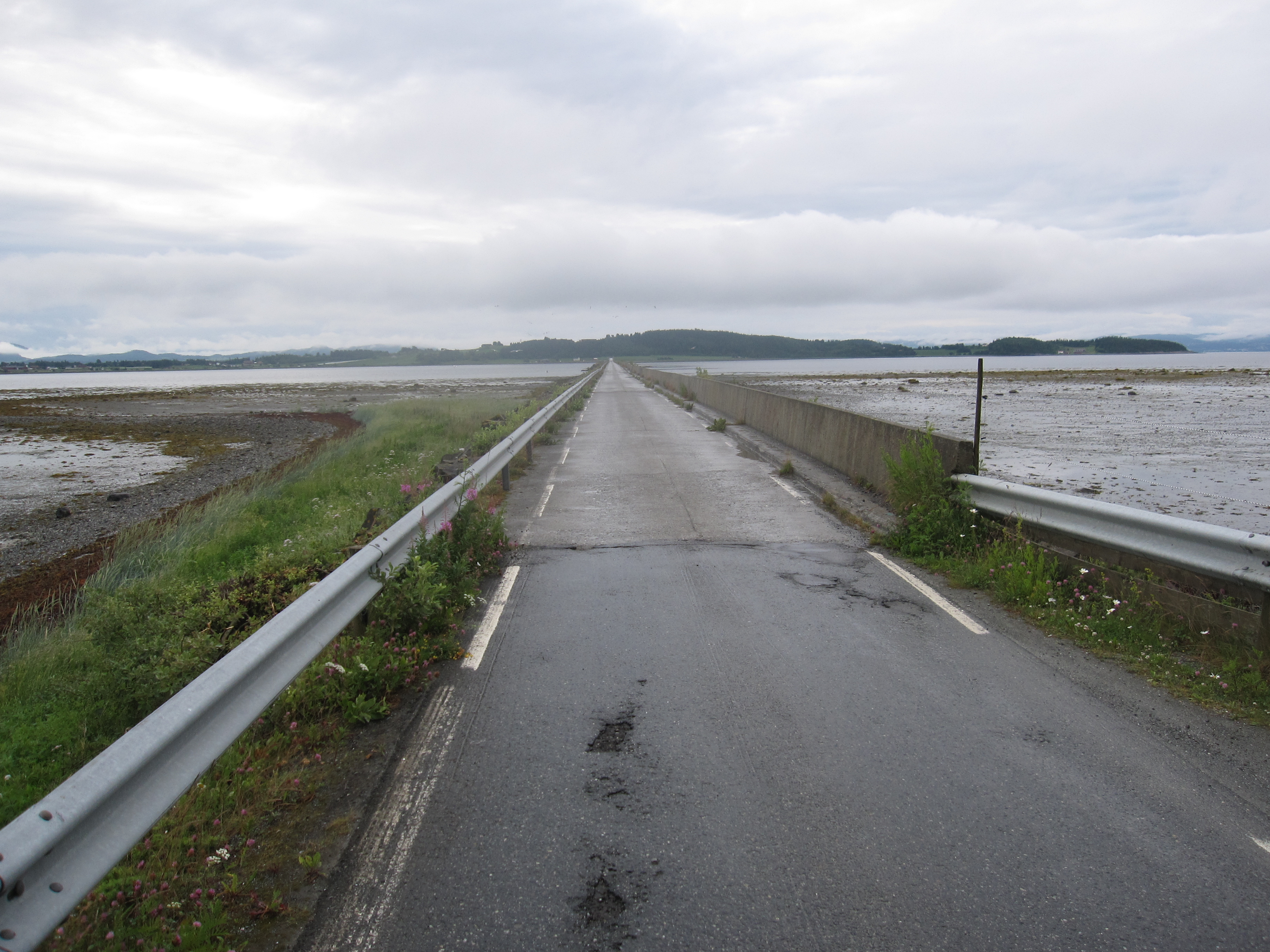 View from the Tautra end of the 2.3 km long Tautrabrua causeway bridge, which takes fylkesvei (county road) number 67 across parts of the Trondheimsfjord - from mainland Frosta to Tautra. Tautrabrua is a narrow, single lane bridge built with a couple of wider sections where two cars can meet and pass each other. When it was first constructed, in 1979, it turned out to have a negative impact on the local wildlife because predators (such as cats and foxes) would use it to cross over to the island. Thus, in 2004 an automatic gate was installed near the middle of the bridge, only opening up to cars but otherwise remaining closed to hinder four legged predators in crossing. read more